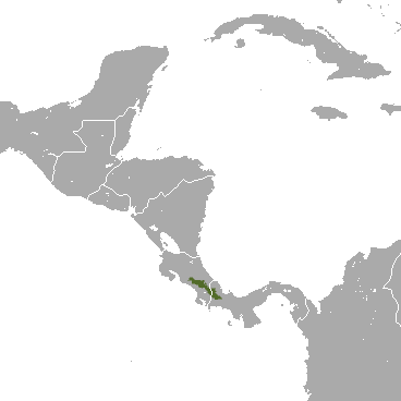 Dice's Cottontail (Sylvilagus dicei) range